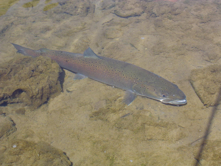 Huchen (Hucho hucho)